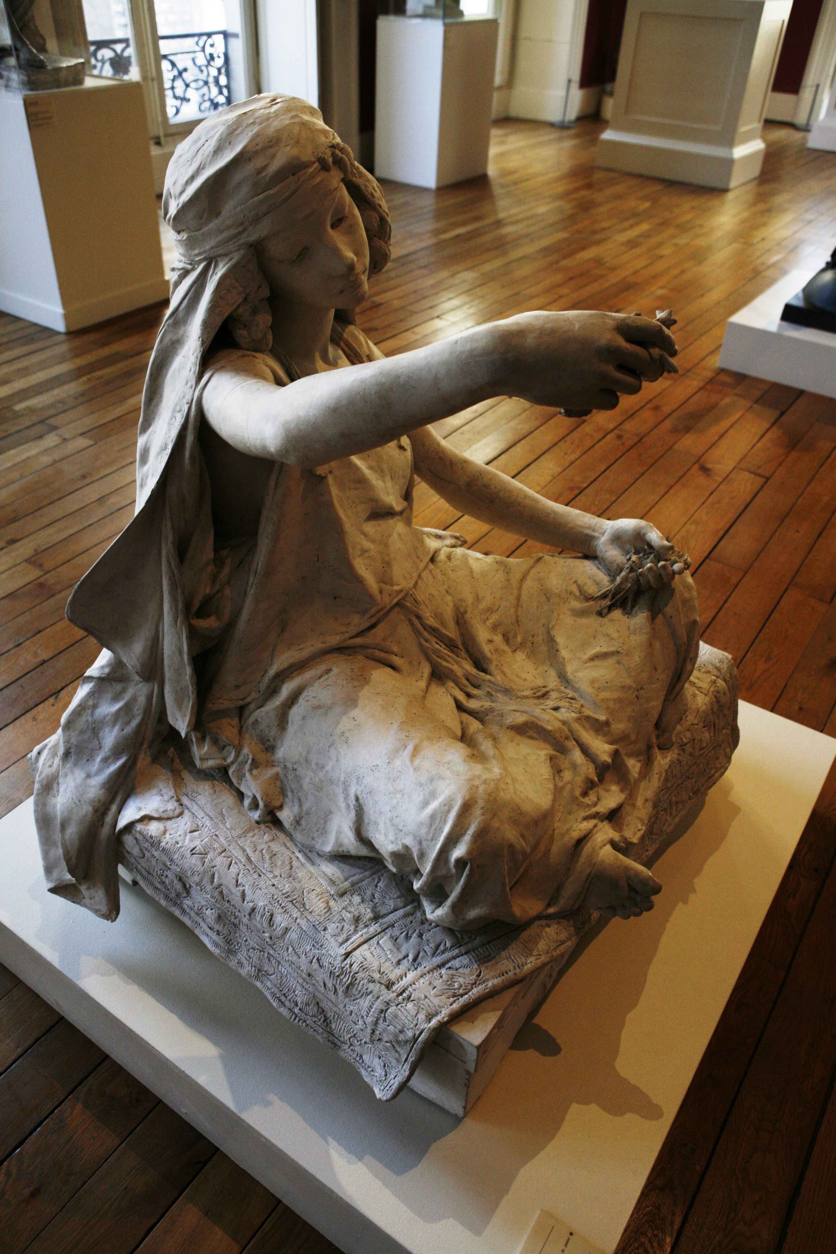 Young girl from Bou Saâda, by Louis-Ernest Barrias. Model for the sculpture on Gustave Guillaumet's tumb. Plaster On display at Dijon Fine Arts museum (musée des Beaux-Arts de Dijon). Access number 2024